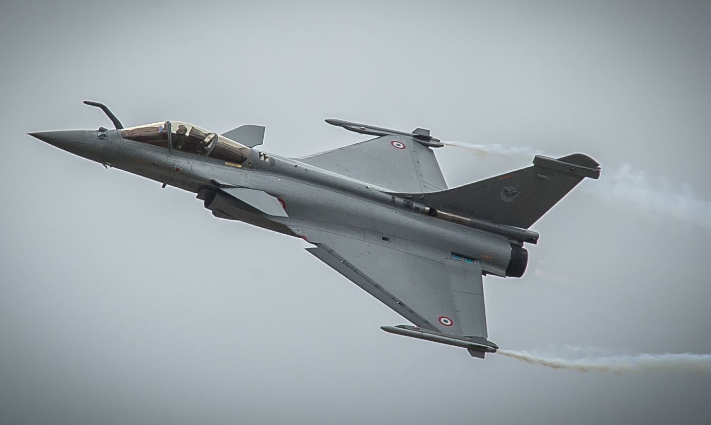 Dassault Rafale C code number 113-GC 150621-F-RN211-248 Paris Air Show 2015.